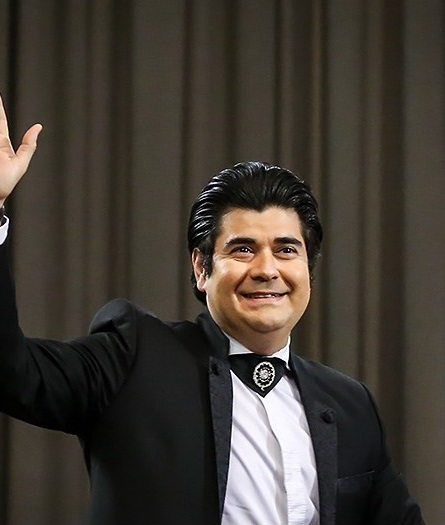 Salar Aghili, Iranian singer